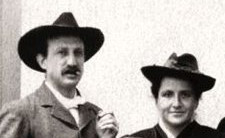 Cropped photo of Leo & Gertrude Steian, ca. 1905